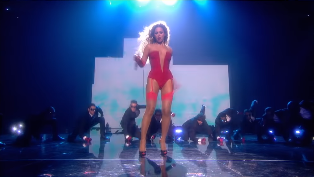 Beyonce perfoming at 2009 MTV EMA